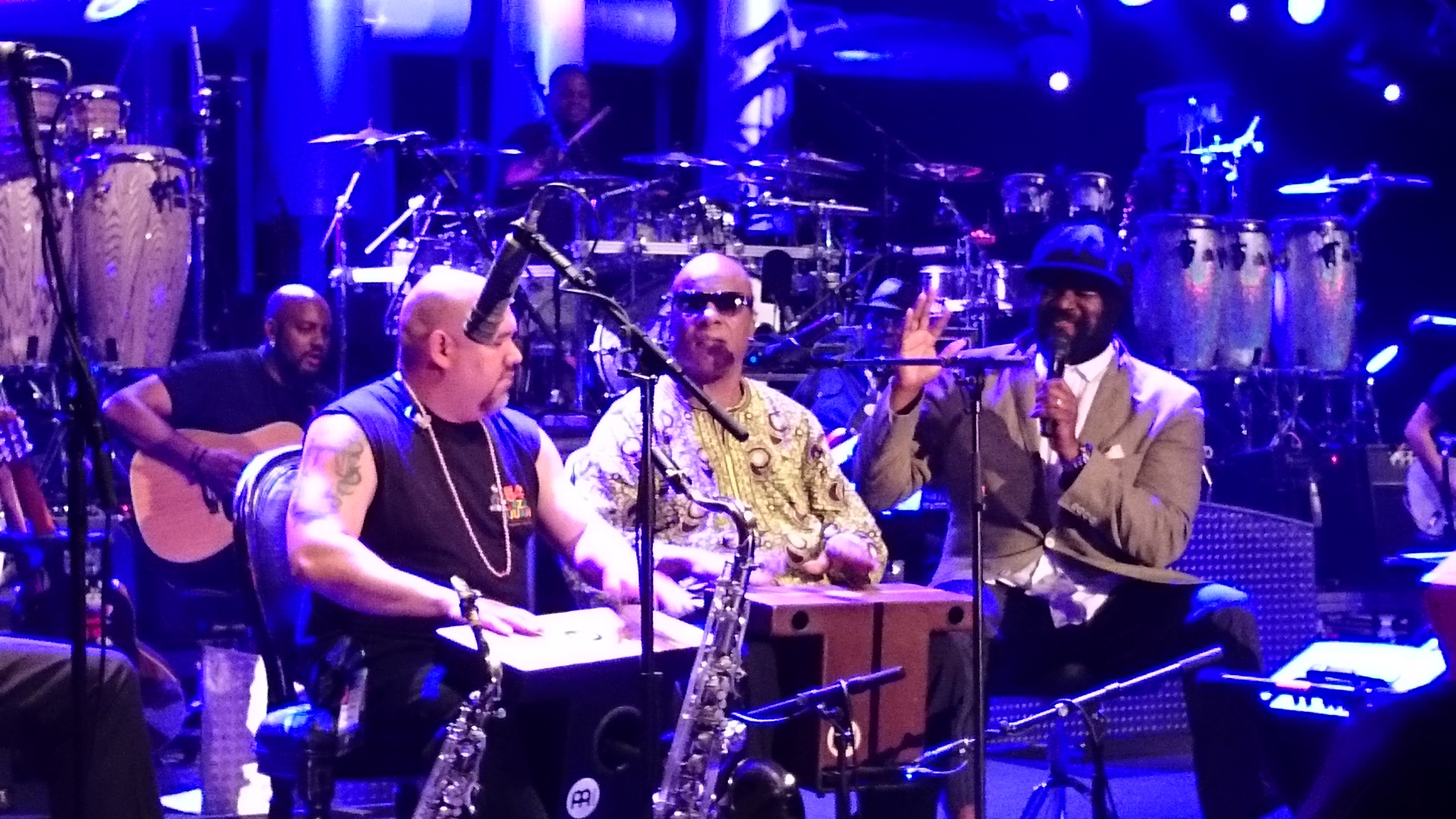 Stevie Wonder plays percussions and sings with Gregory Porter at Jazz à Juan festival in 2014.